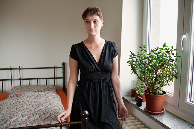 Prague, 2013